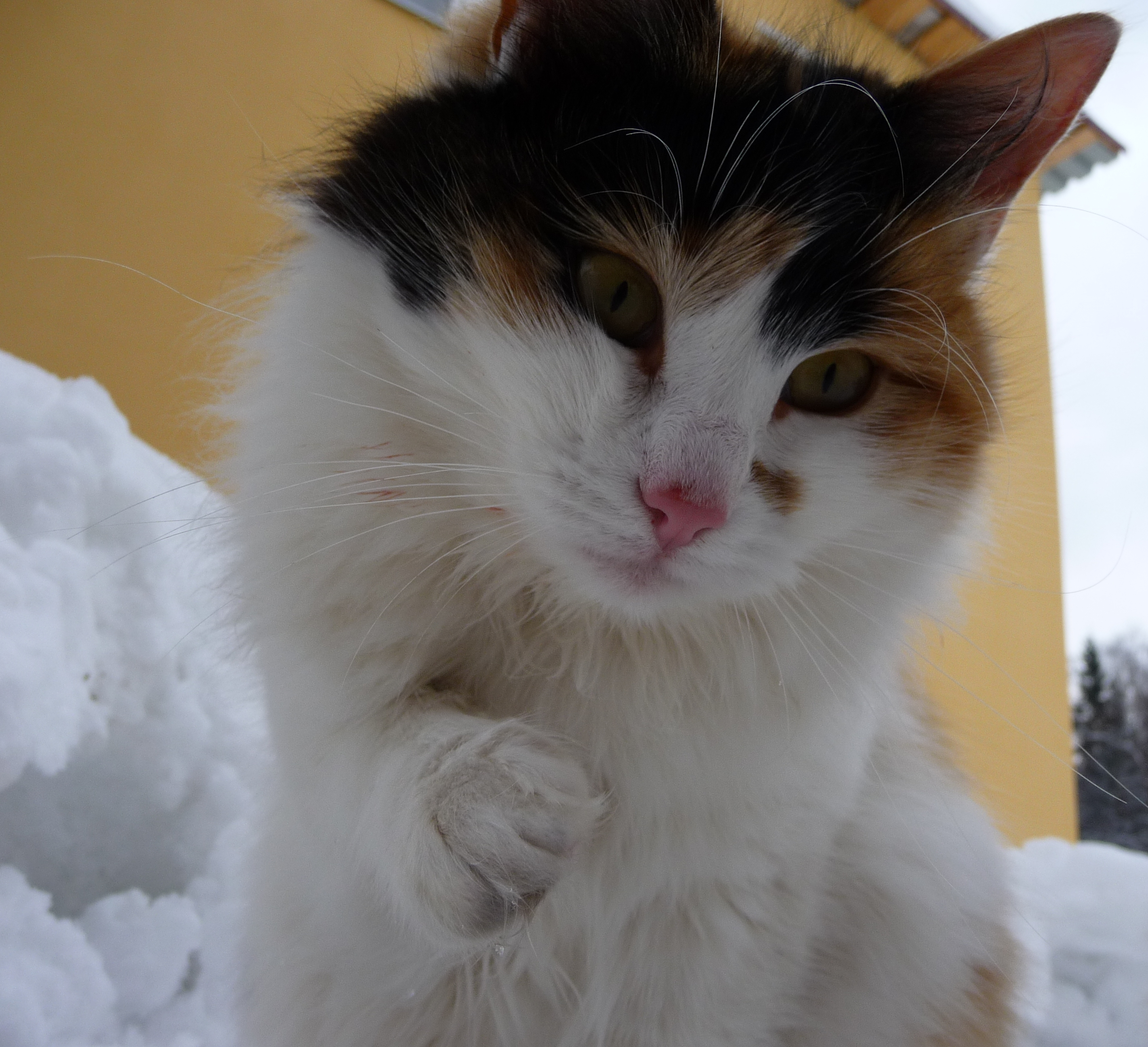 Japanese Bobtail